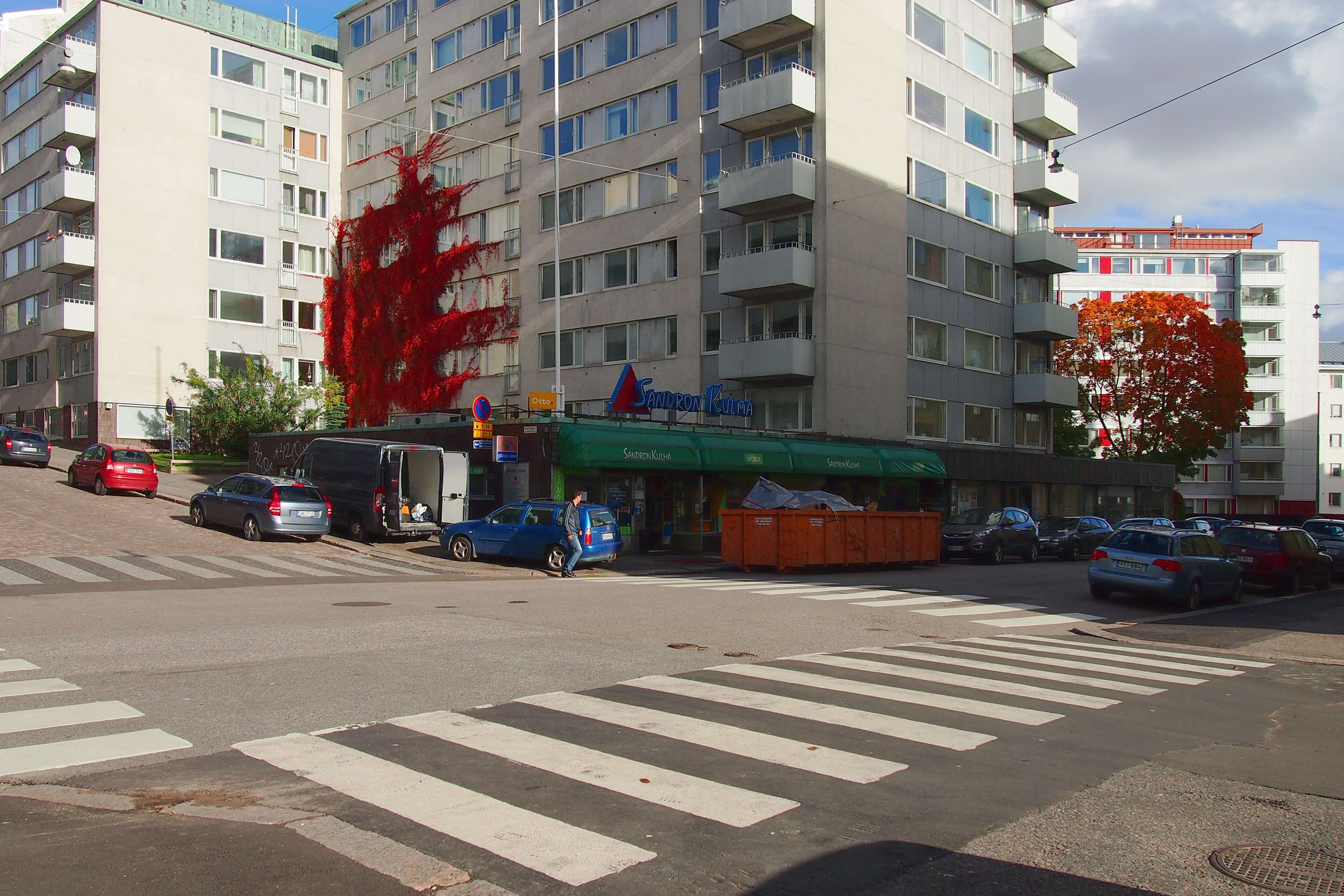 Colors of Fall in Kallio, Helsinki, September 2012